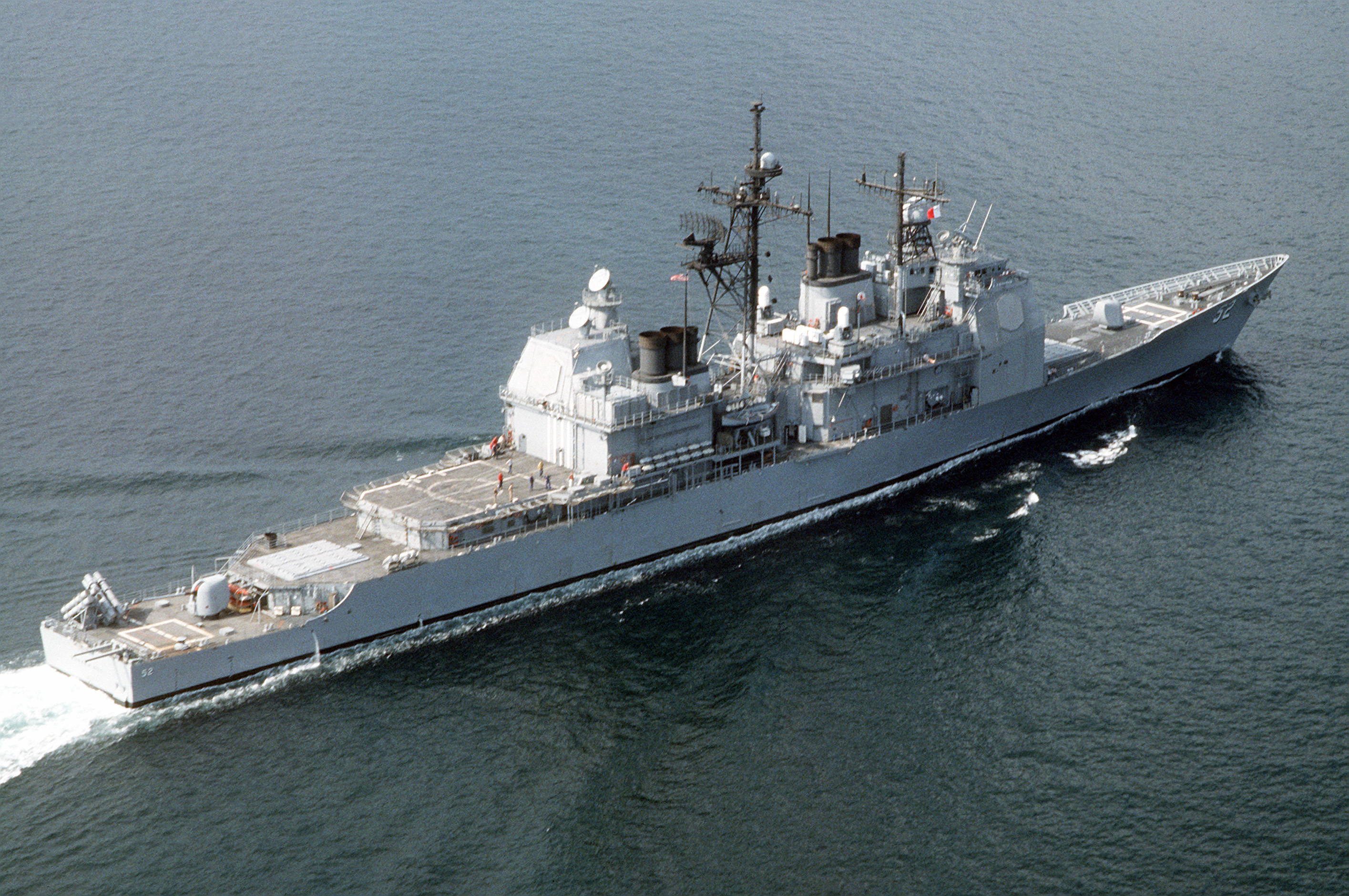 A starboard quarter view of the guided missile cruiser USS BUNKER HILL (CG-52) during Operation Desert Shield.